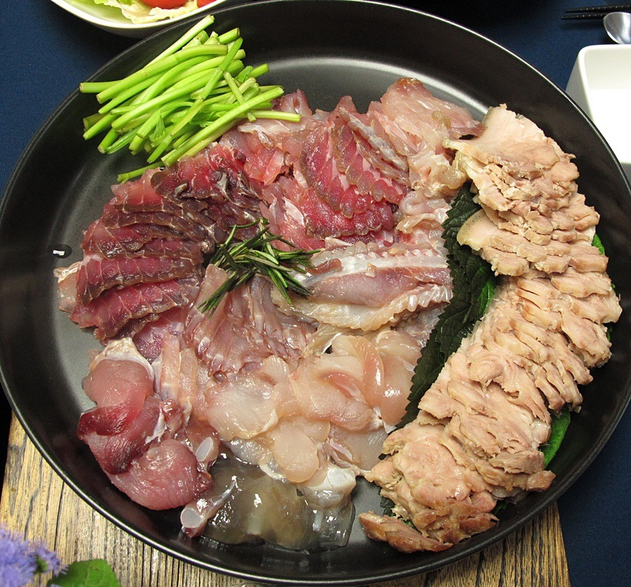 hongeo (fermented skate)